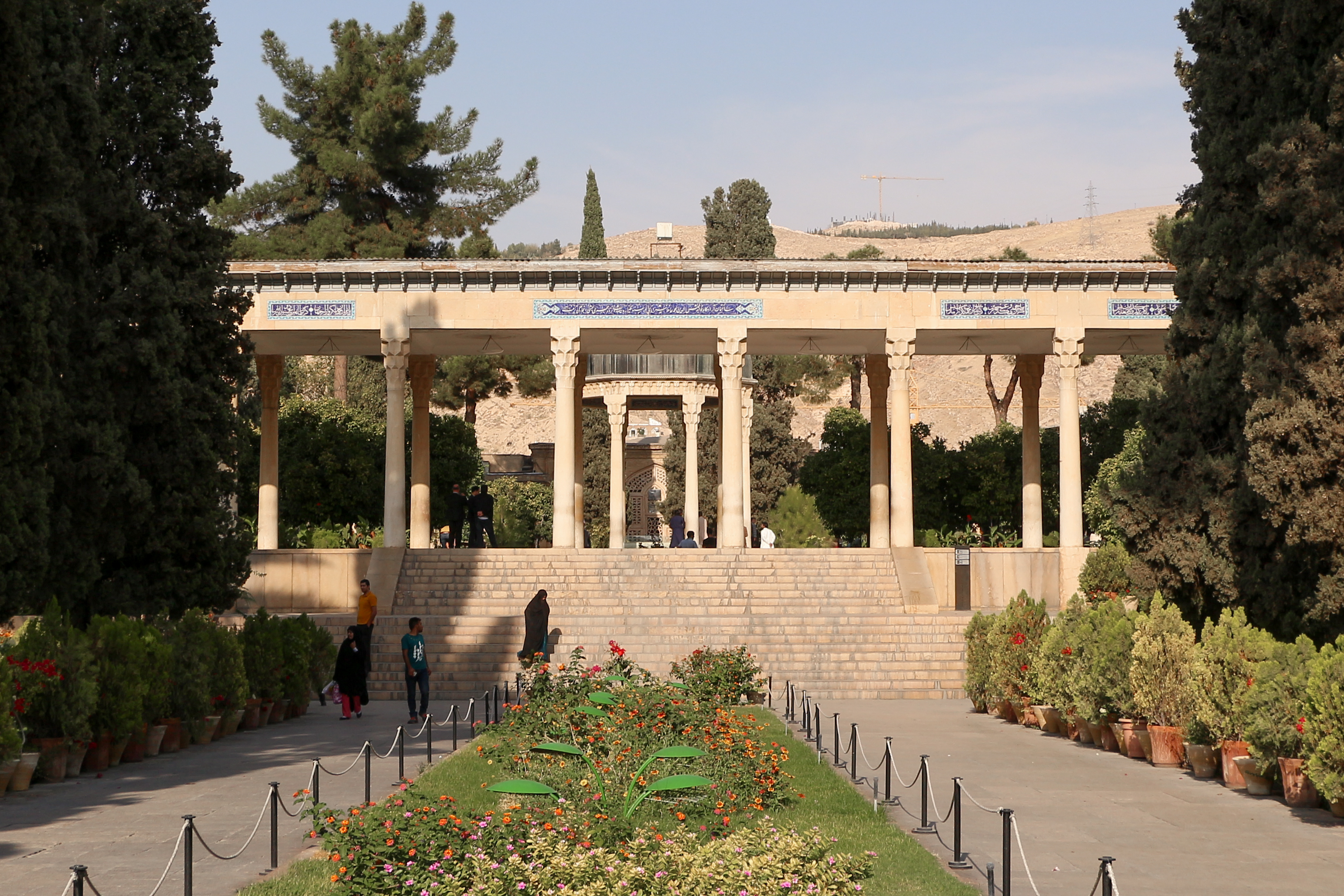 Tomb of Hafez, Shiraz, Iran